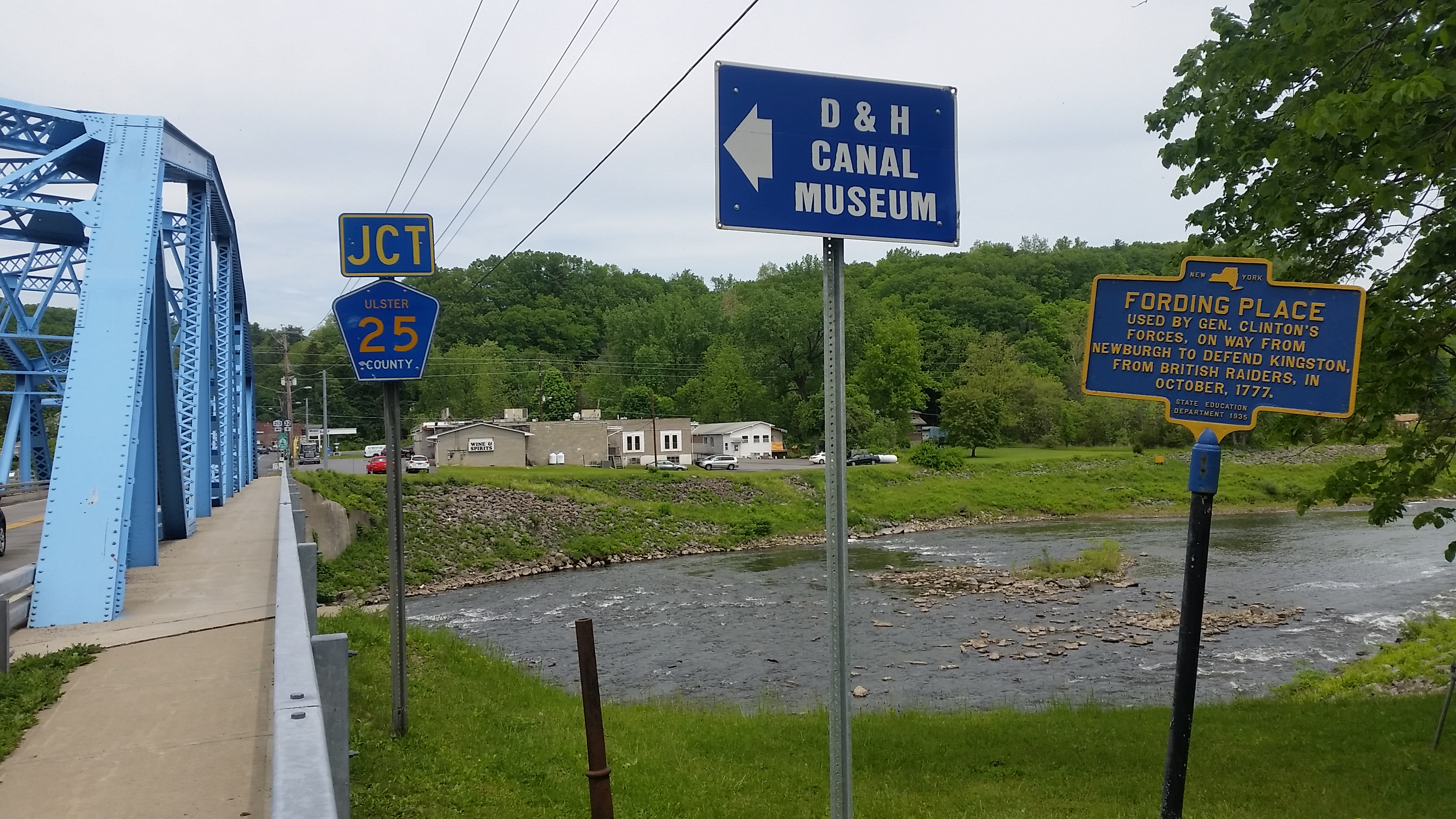 NY State historical marker showing where General Clinton crossed the Rondout to defend Kingston from British raiders. BUT.... General Clinton was (as we say over here) a bad guy (in fact, one of the head bad guys, like those guys who sit around with Darth Vader at that meeting where Vader almost kills one) so, um... why was he crossing a river to defend Kingston from his own team?